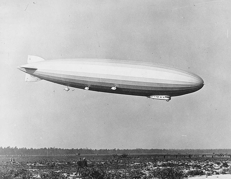 Airship LZ-126 arriving at Naval Air Station Lakehurst, New Jersey, after her flight across the Atlantic from Germany, 15 October 1924. After delivery to the U.S. Navy, she became USS Los Angeles (ZR-3).